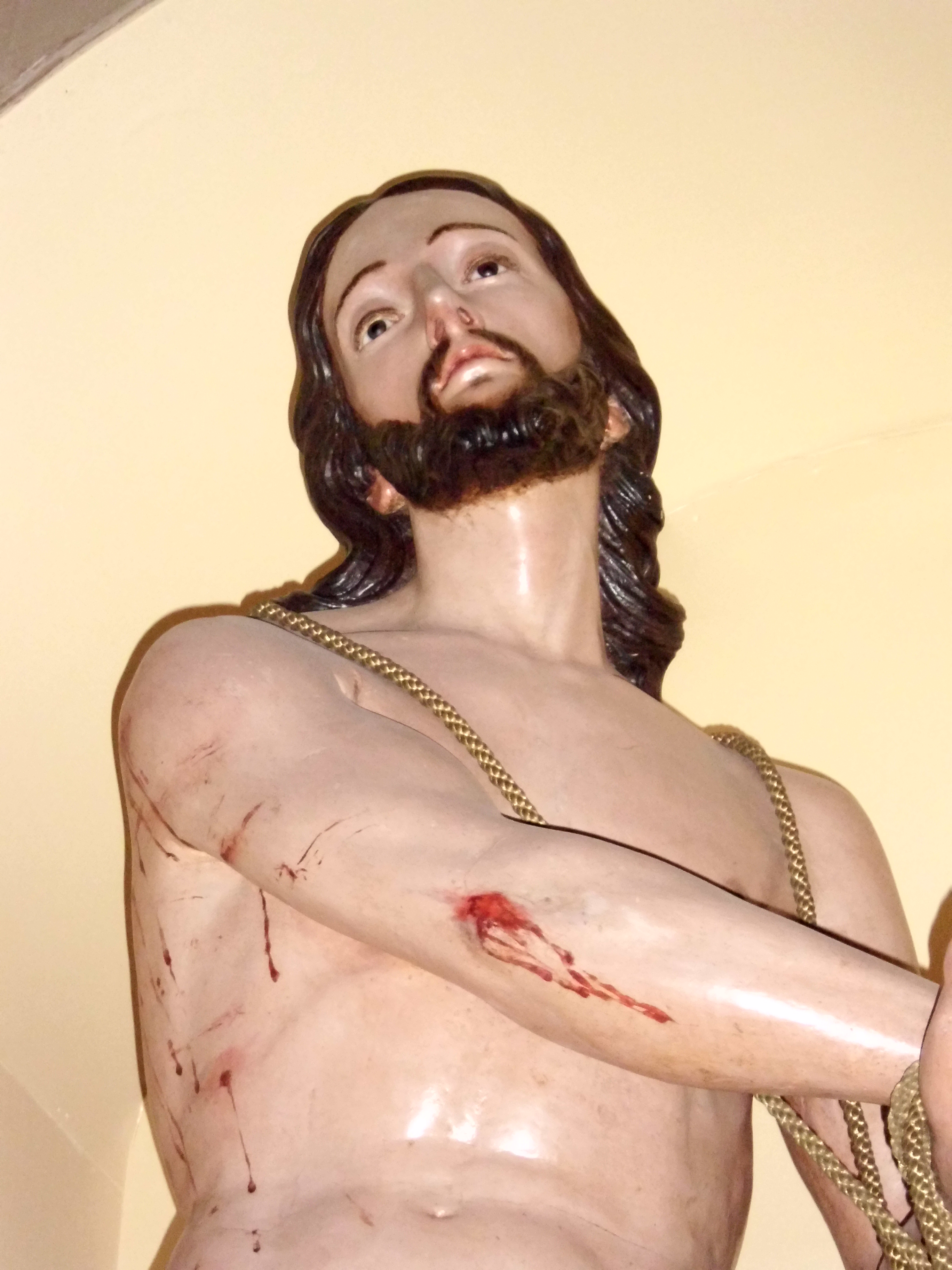 Santísimo Cristo Atado a la Columna